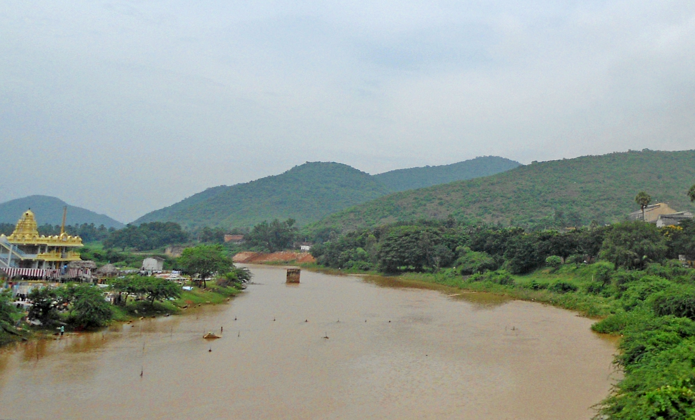 Thandava river near Tuni in Andhra Pradesh